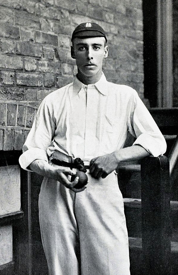 Scan of cricketer Sydney Santall